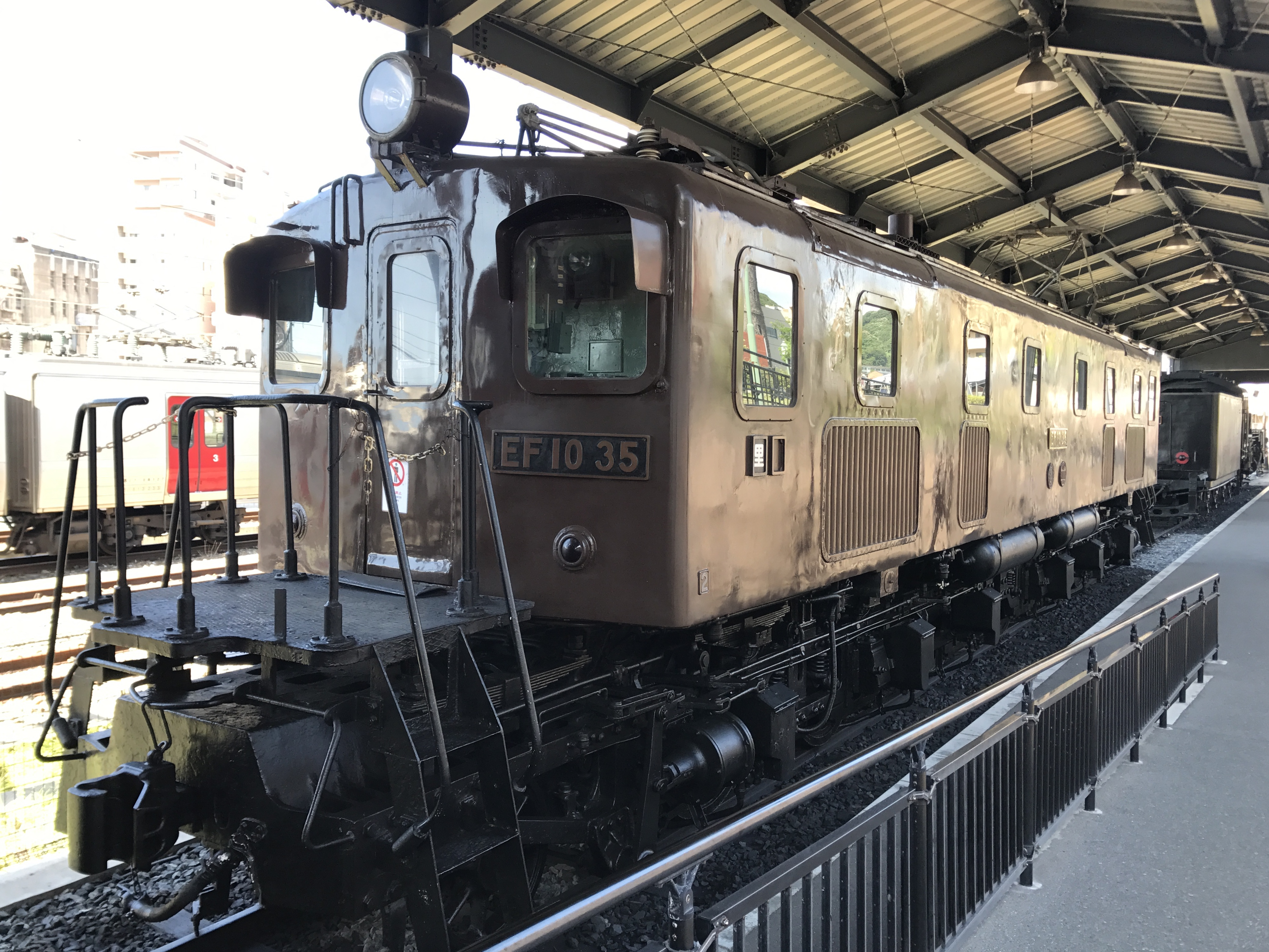 Preserved Class EF10 electric locomotive EF10 35 at the Kyushu Railway History Museum in Kitakyushu, Fukuoka Prefecture, Japan